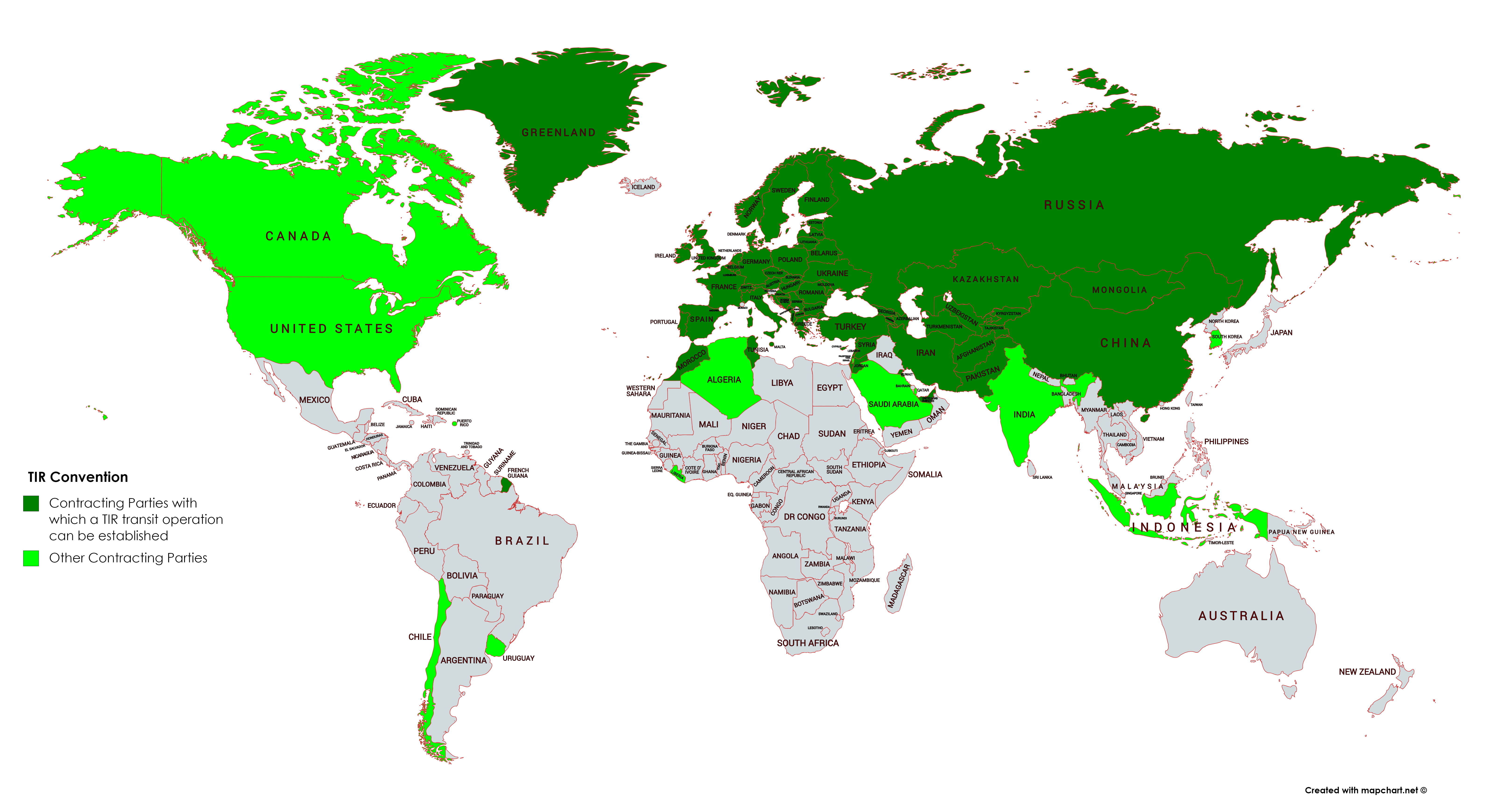 Update China and Saudi Arabia